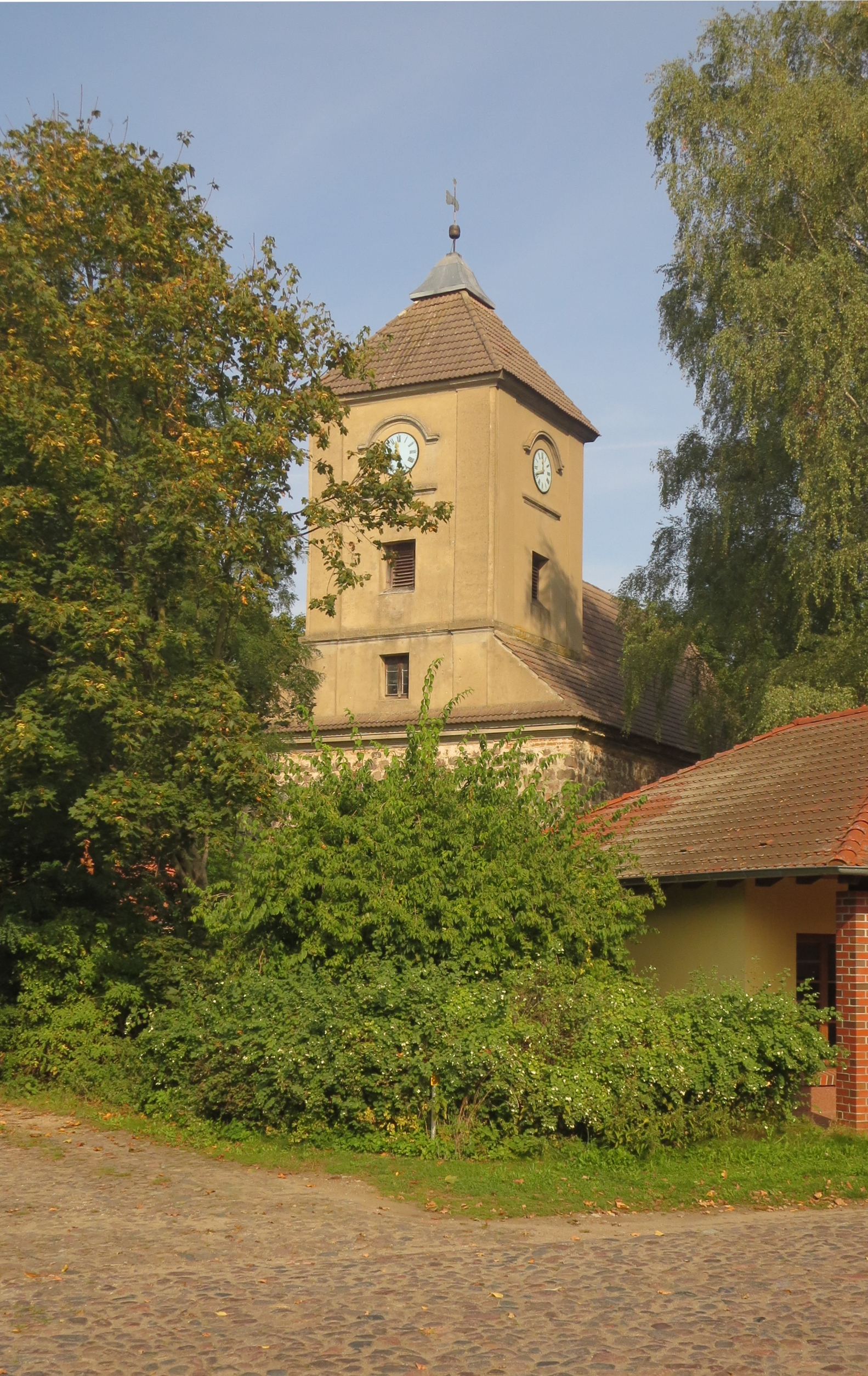 Belfry of Zabelsdorf Church, Zehdenick municipality, Oberhavel district, Brandenburg state, Germany